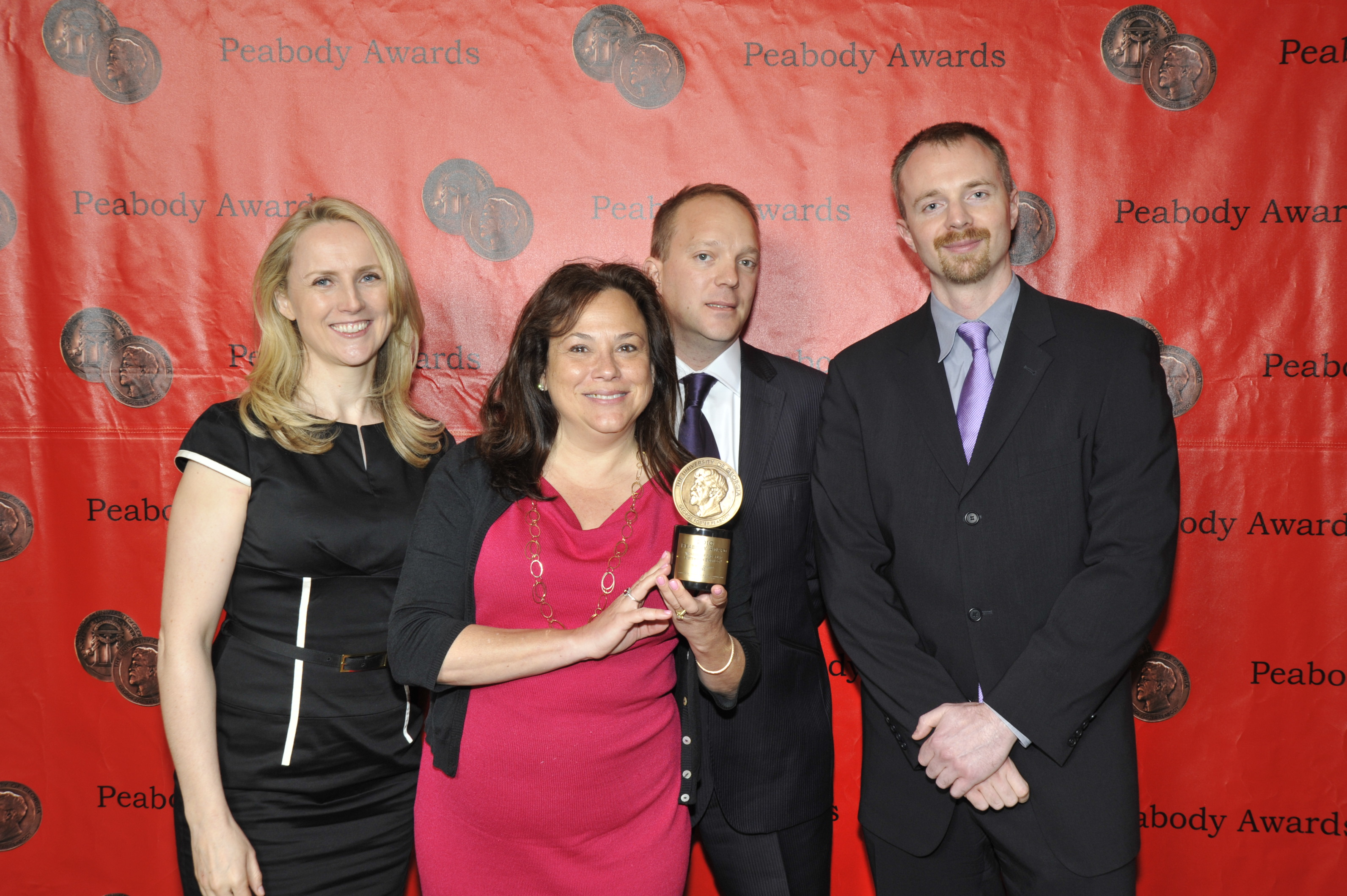 PHOTO CREDIT: ANDERS KRUSBERG / PEABODY AWARDS A Peabody Award for Wonders of the Solar System L to R: Unknown, Debbie Myers (aka Deborah Adler Myers), Michael Lachmann, unknown, 70th Annual Peabody Awards Luncheon Waldorf=Astoria Hotel, May 23, 2011